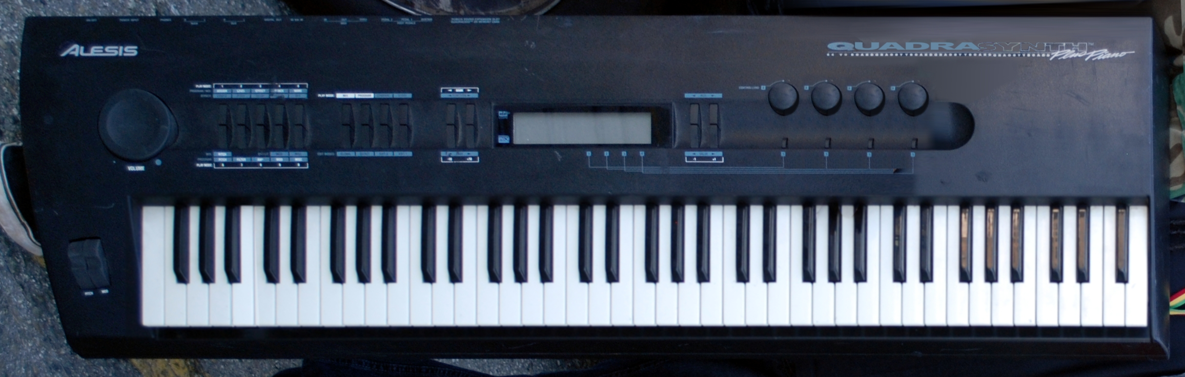 Alesis QuadraSynth Plus “Reggae by the Bay”, San Francisco, CA Pier 23, July 3rd, 2010